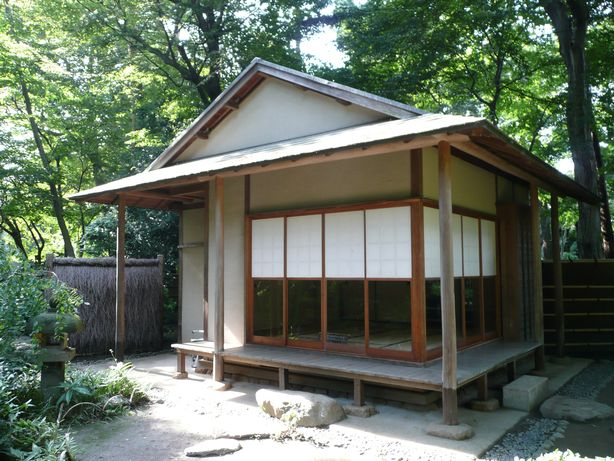 Inokasira park zoo. 井の頭自然文化園 野口雨情 童心居, Musashino.